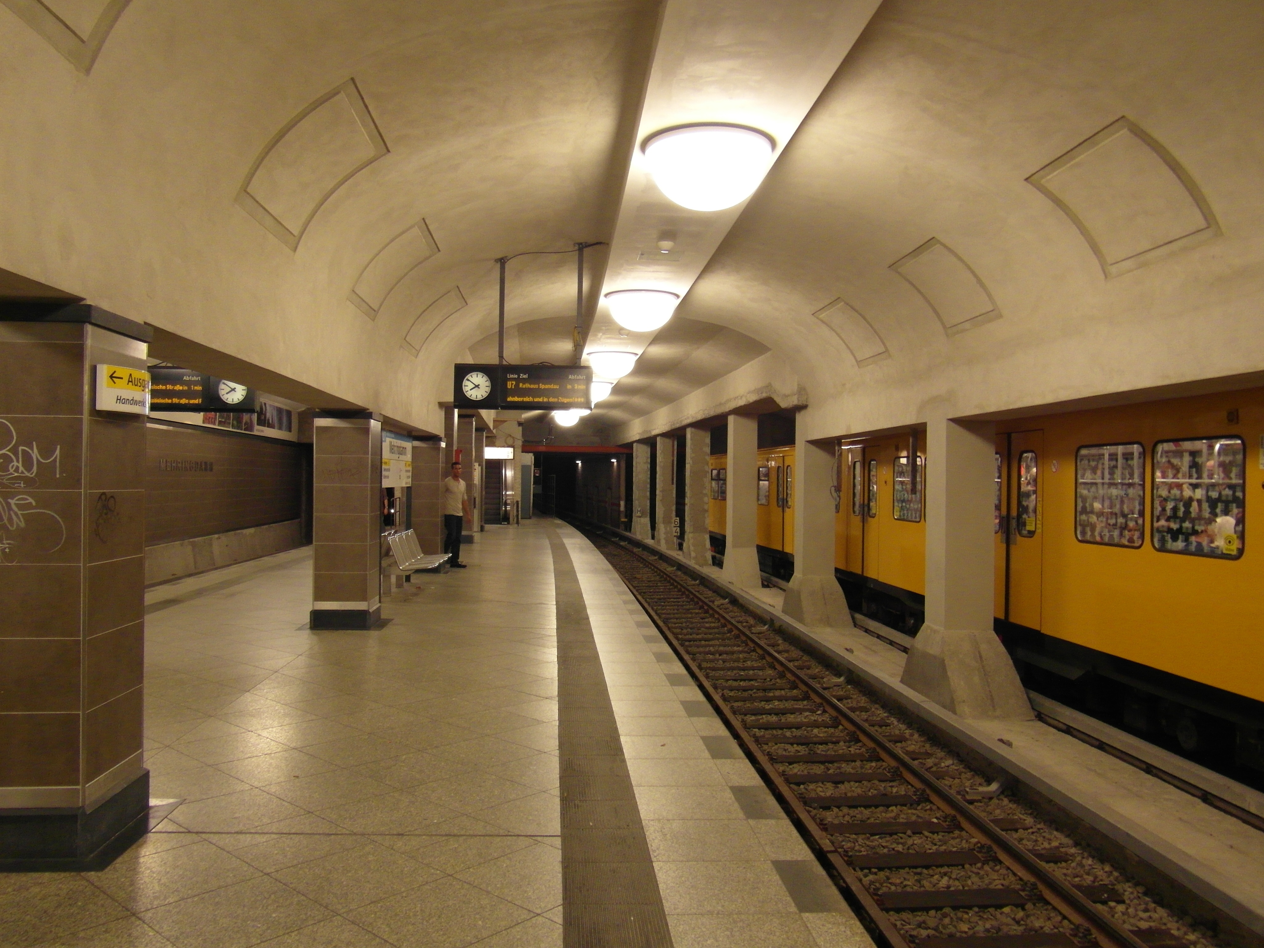 Berlin's underground station Mehringdamm, lines U6 & U7